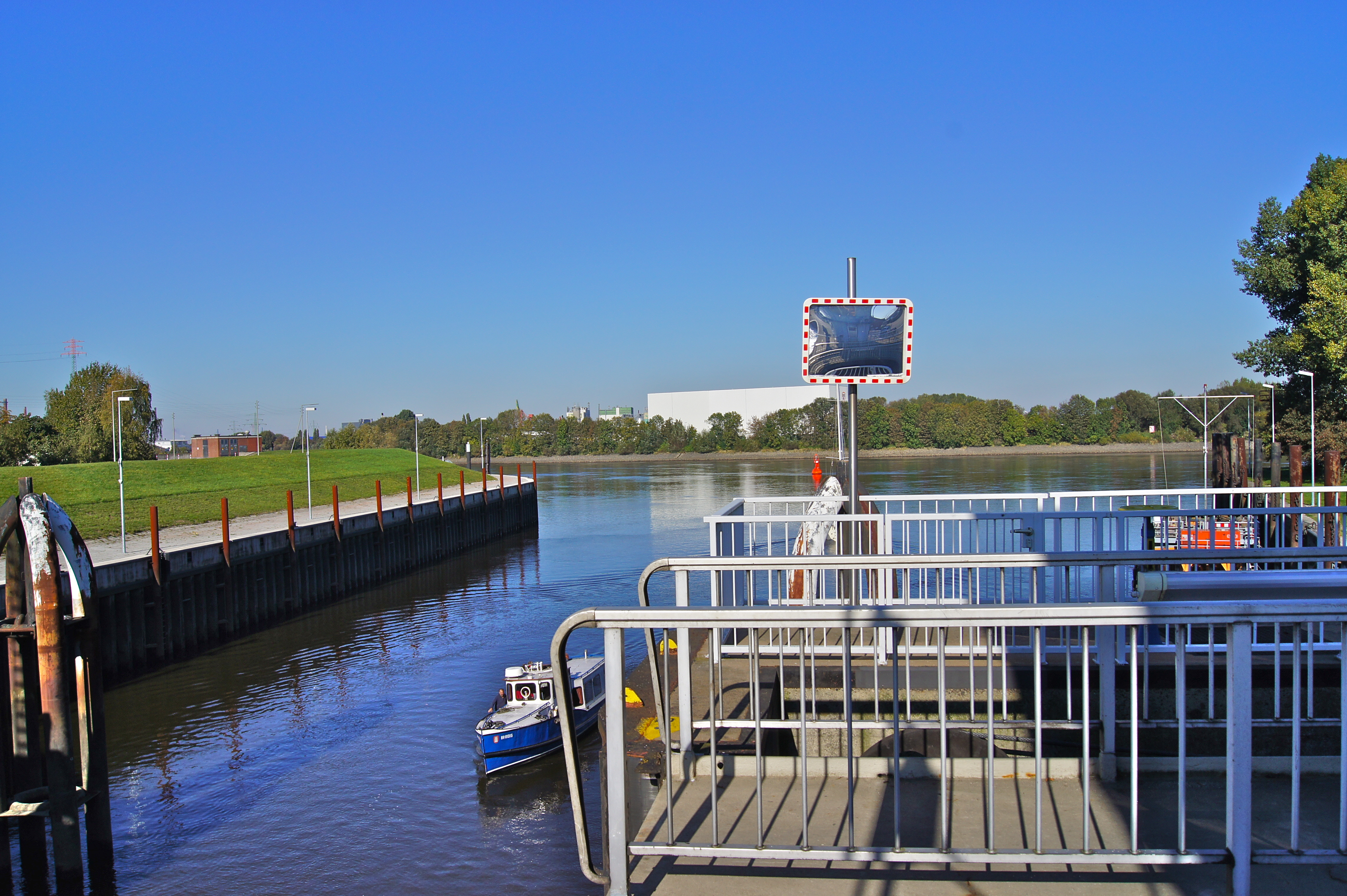 Hamburg (Harburg), Germany: The confluence of the Verkehrshafencanal in the southern Elbe